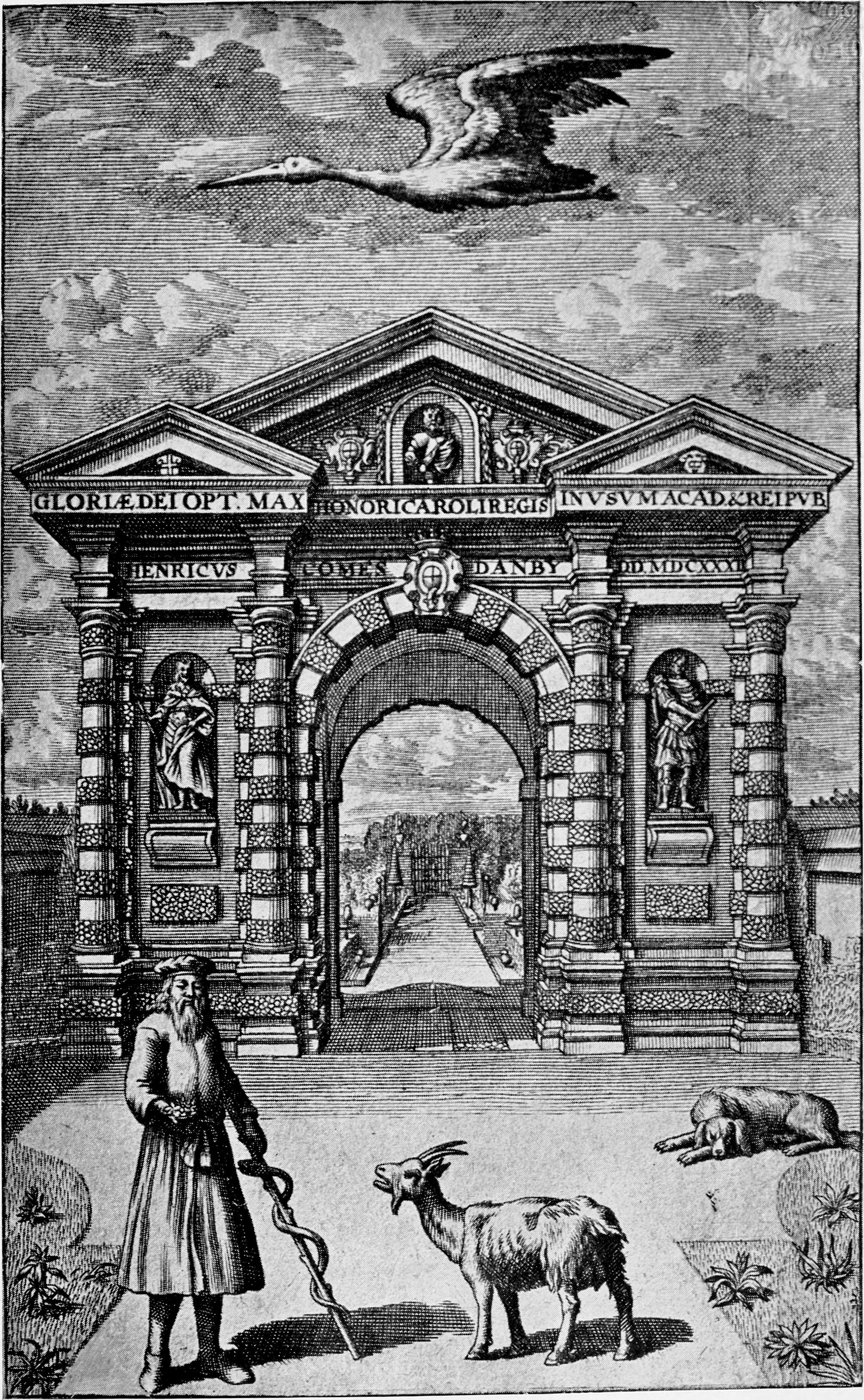 woodcut showing the "Great Gate of the Physic Garden, Oxford", now the Danby Gateway of the University of Oxford Botanic Garden